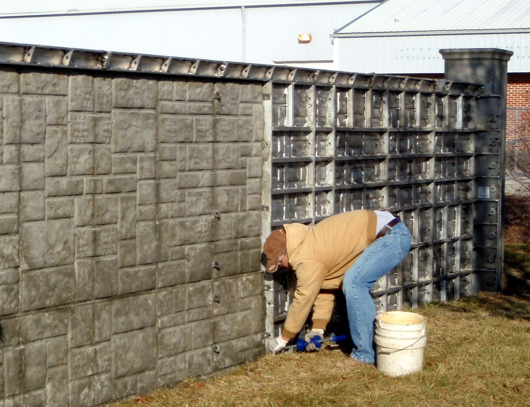 Concrete fence constructed with an ashlar texture.